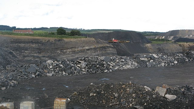 Muir Dean opencast mine Open cast coal mine near Crossgates. Operated by ATH Resources.q